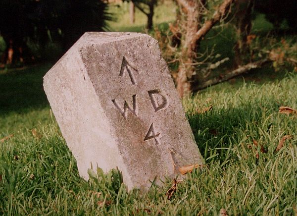 One of hundreds of War Department Ordnance Survey Markers found in Bermuda. This one is located beside the South Shore Road, near Spittal Pond.